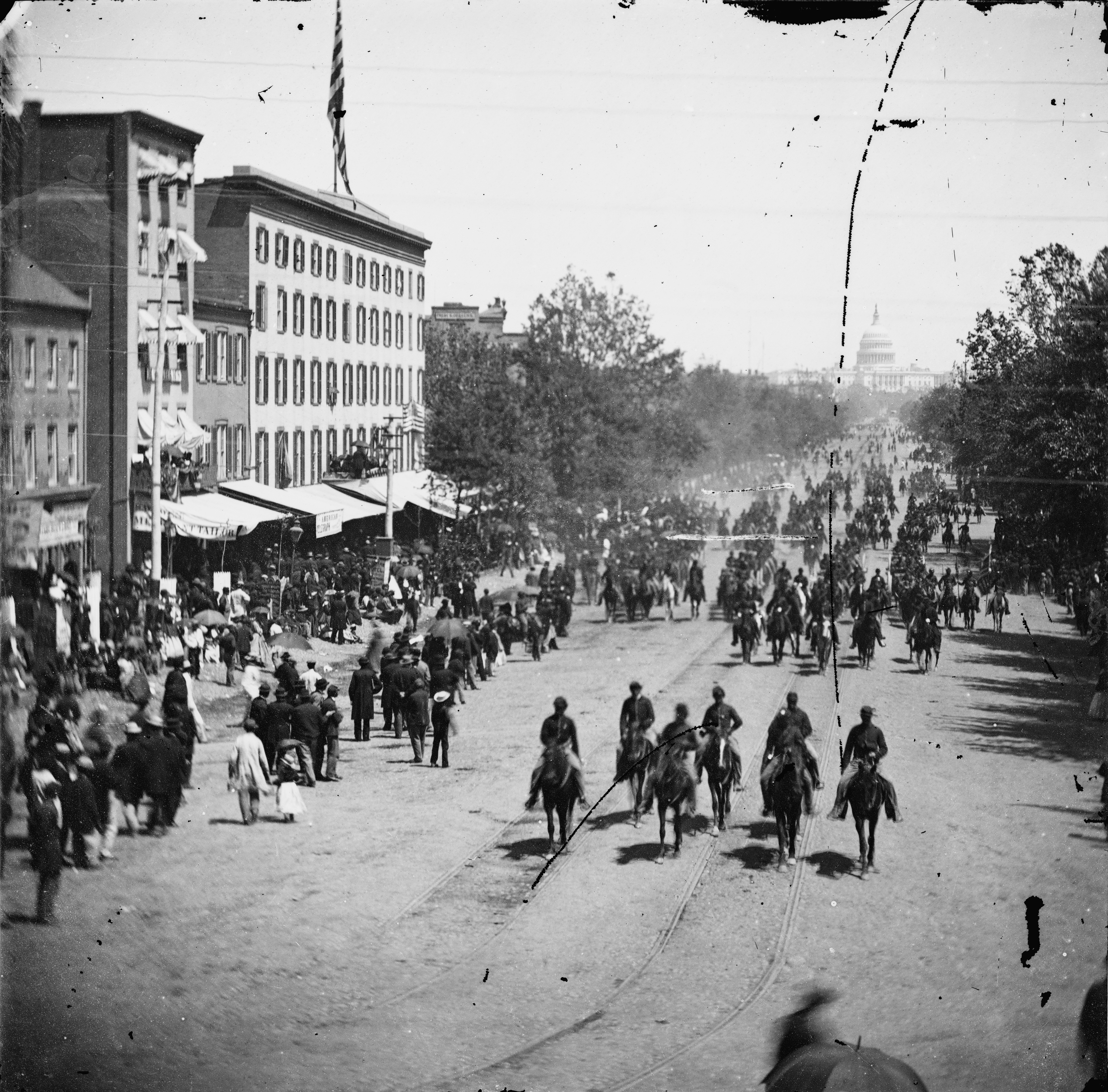 Mathew Brady photograph of Pennsylvania Avenue, Washington, D.C. Taken May 1865. Category:United States history images Category:Images of Washington, D.C.